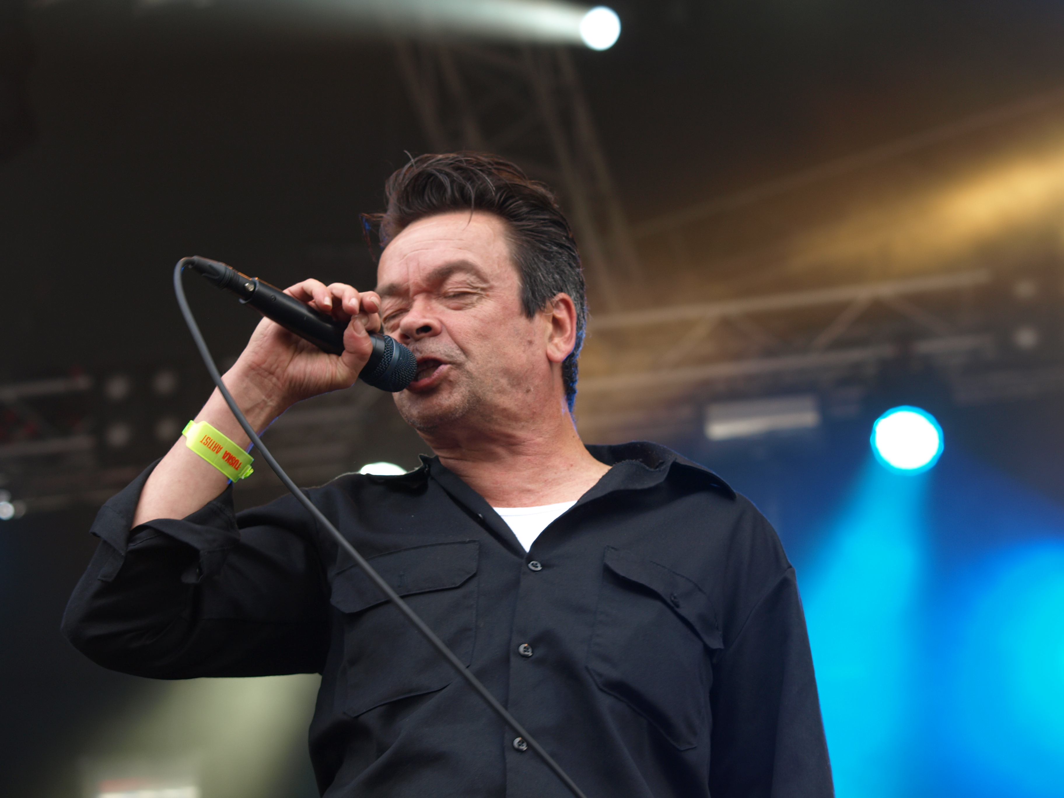 Finnish punk band Lama at Tuska Open Air 2013 during a reunion show